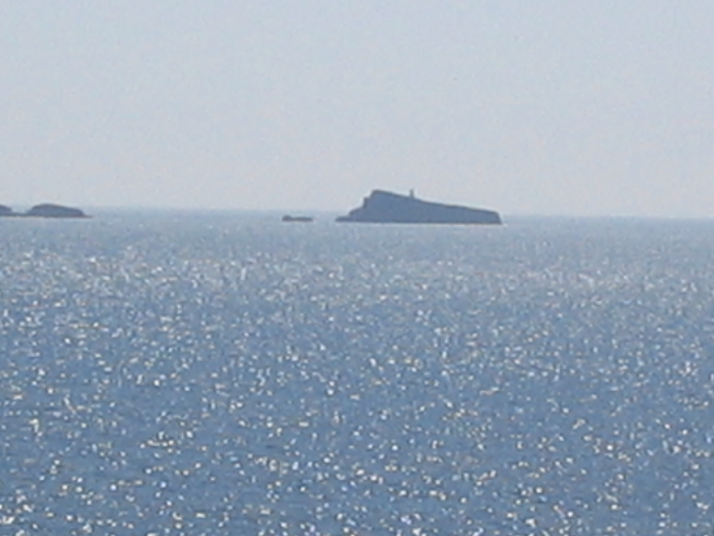 Small majorcan island, in El Toro.